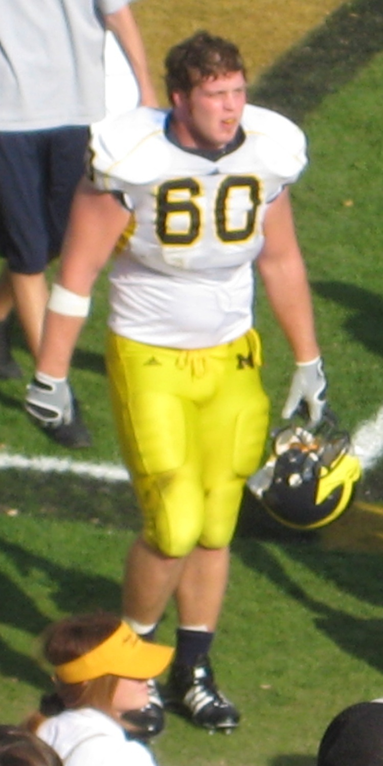 David Moosman leaves the Ross–Ade Stadium in West Lafayette, Indiana after the University of Michigan Football team's 2008 loss to the Purdue University football team.